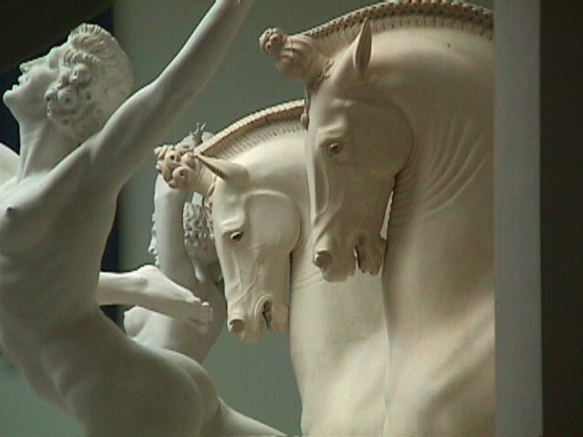 Hendrik Andersen (1872- 1940) - Picture by Giovanni Dall'Orto, 17-08-2000.